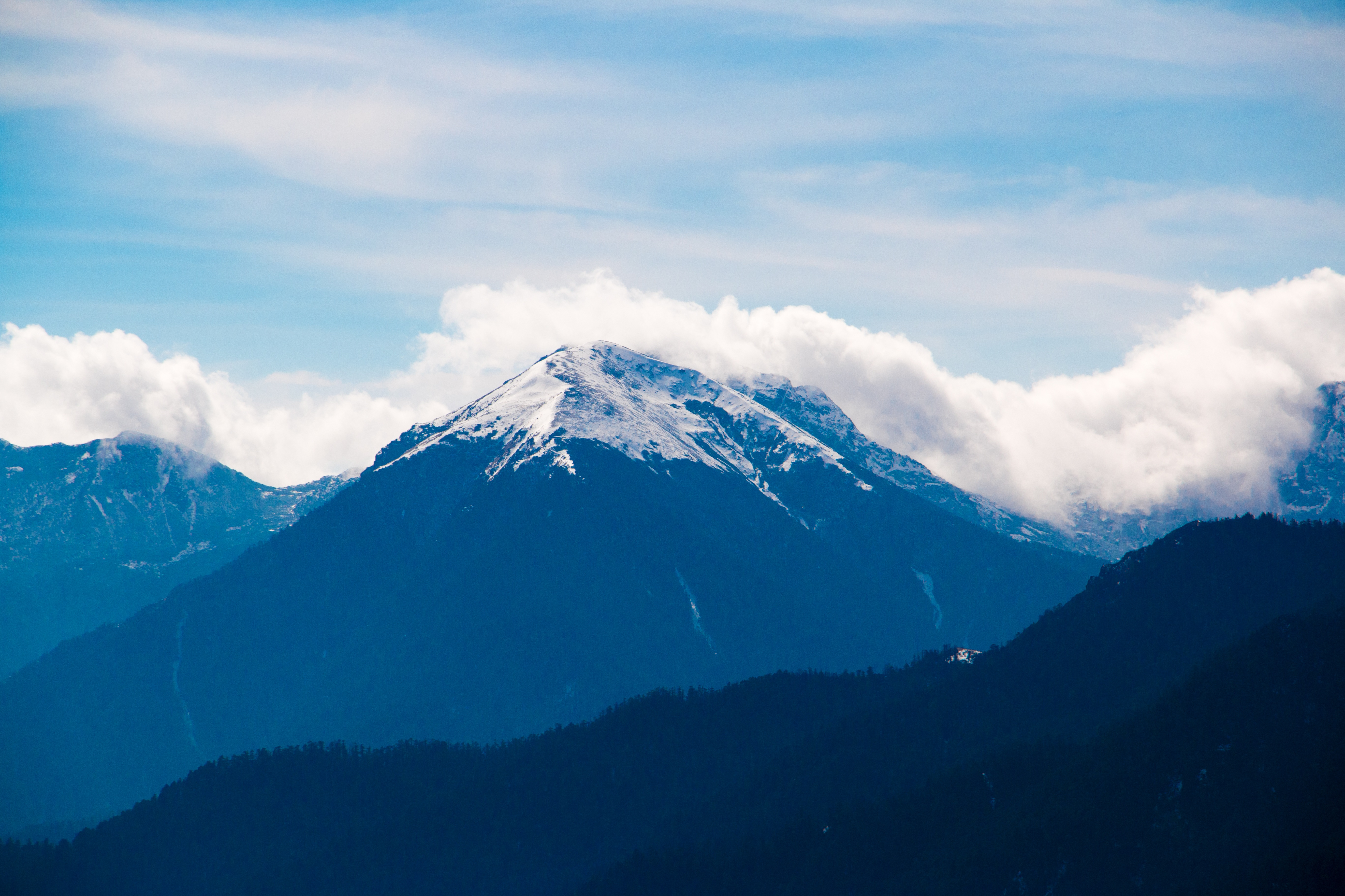 A view of the Mountains of Bhutan from the Chelela Pass.